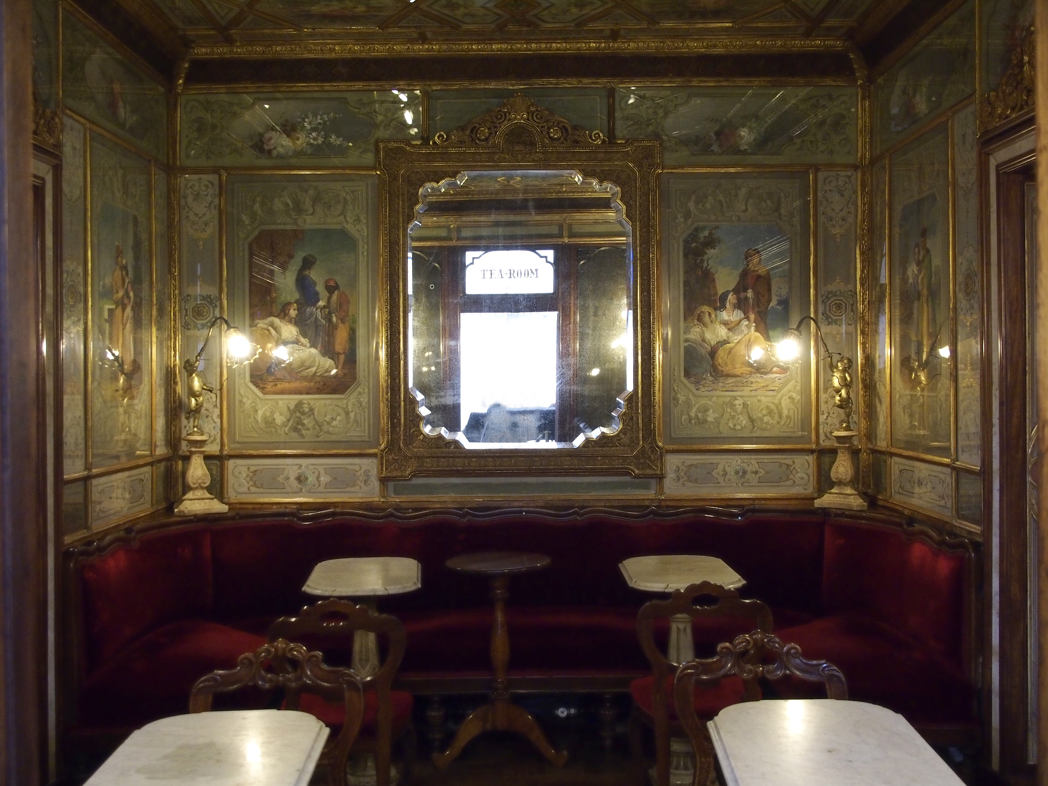 Tea-Room Caffè Florian, in Piazza San Marco square in Venice